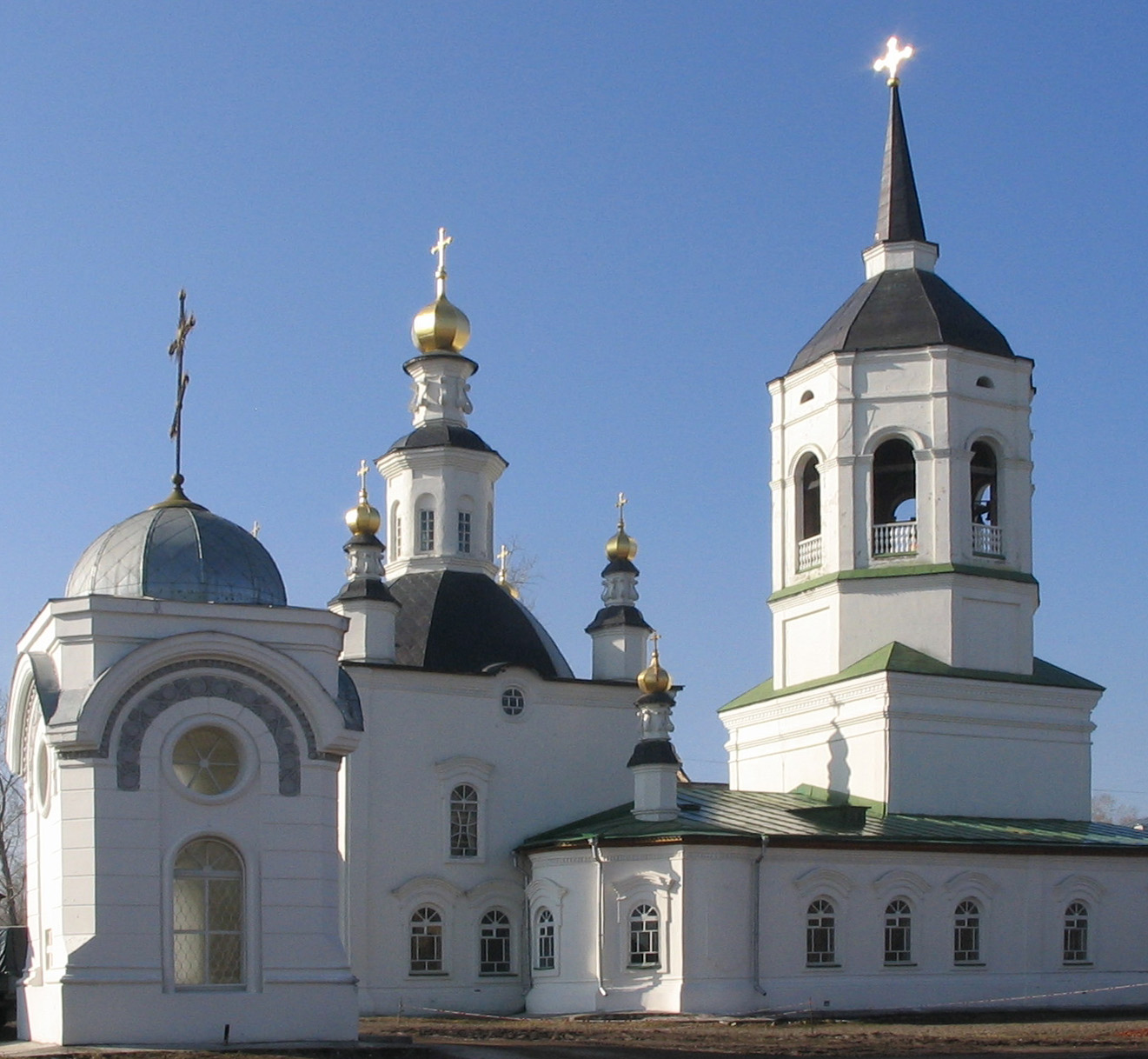 Kazan church and chapel of st. Feodor Kuzmich in Tomsk